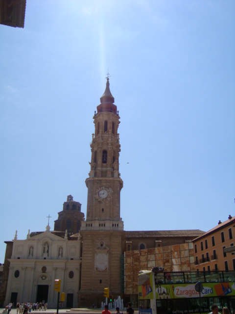 Pilar's Square and the Seo, Saragossa's cathedral